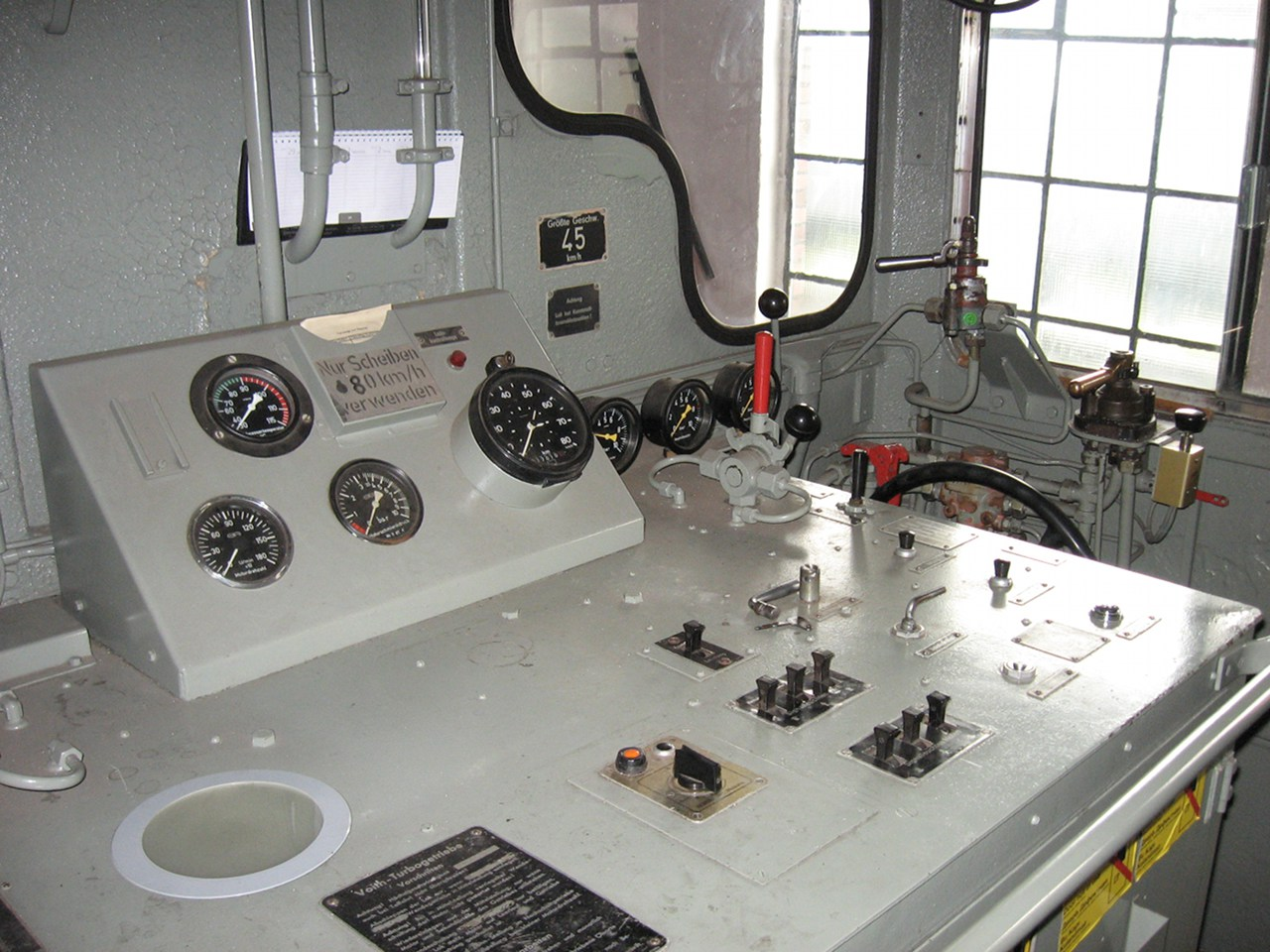 Cab of german class 332 shunting locomotive.